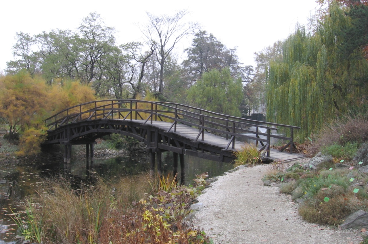 Wrocław, Poland Botanic Garden - small bridge over garden pond - relic of 19th century Odra River channel